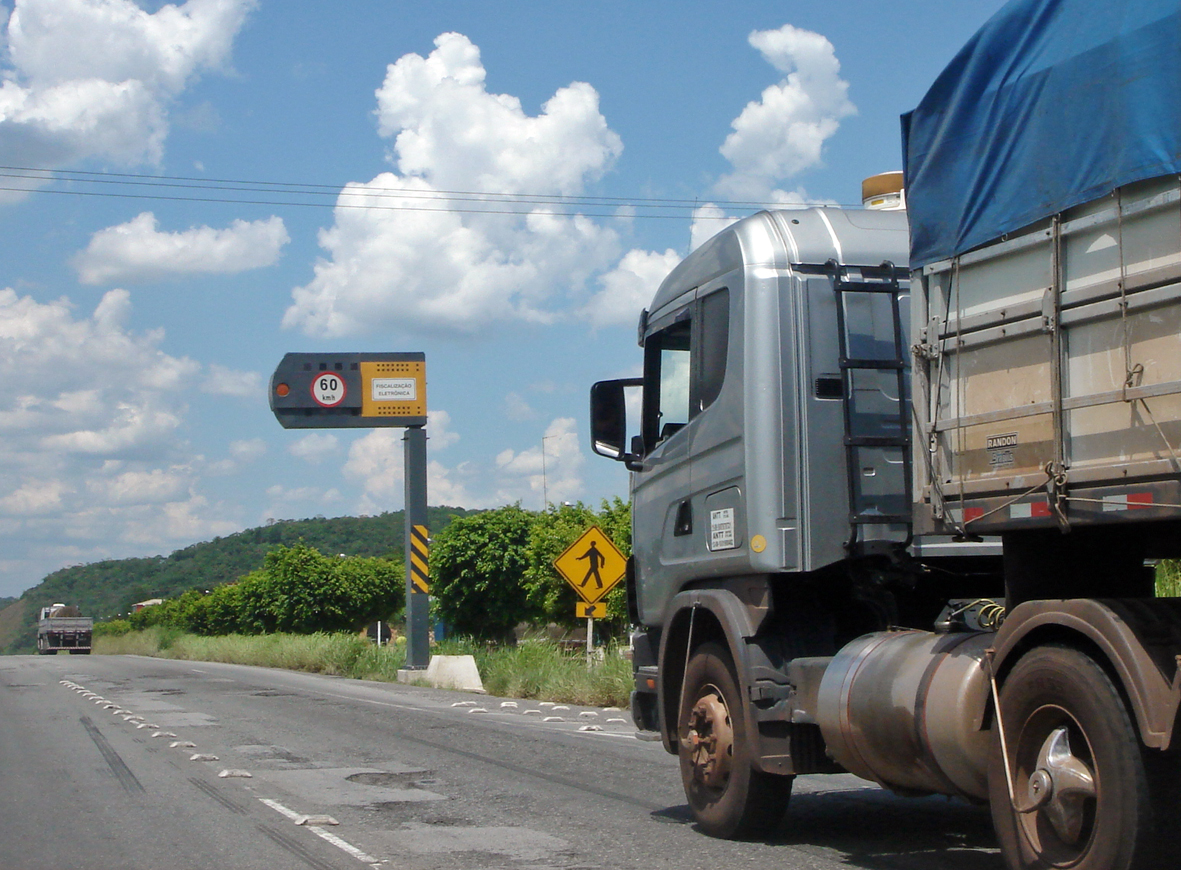 Speed surveillance on rural highway, Brazil